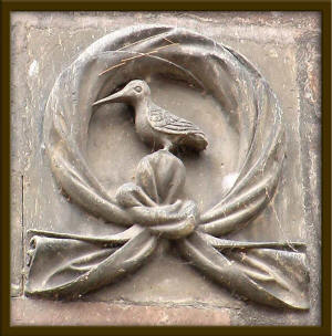 Detail of Prague Bridge tower, symbol of Vaclav IV.